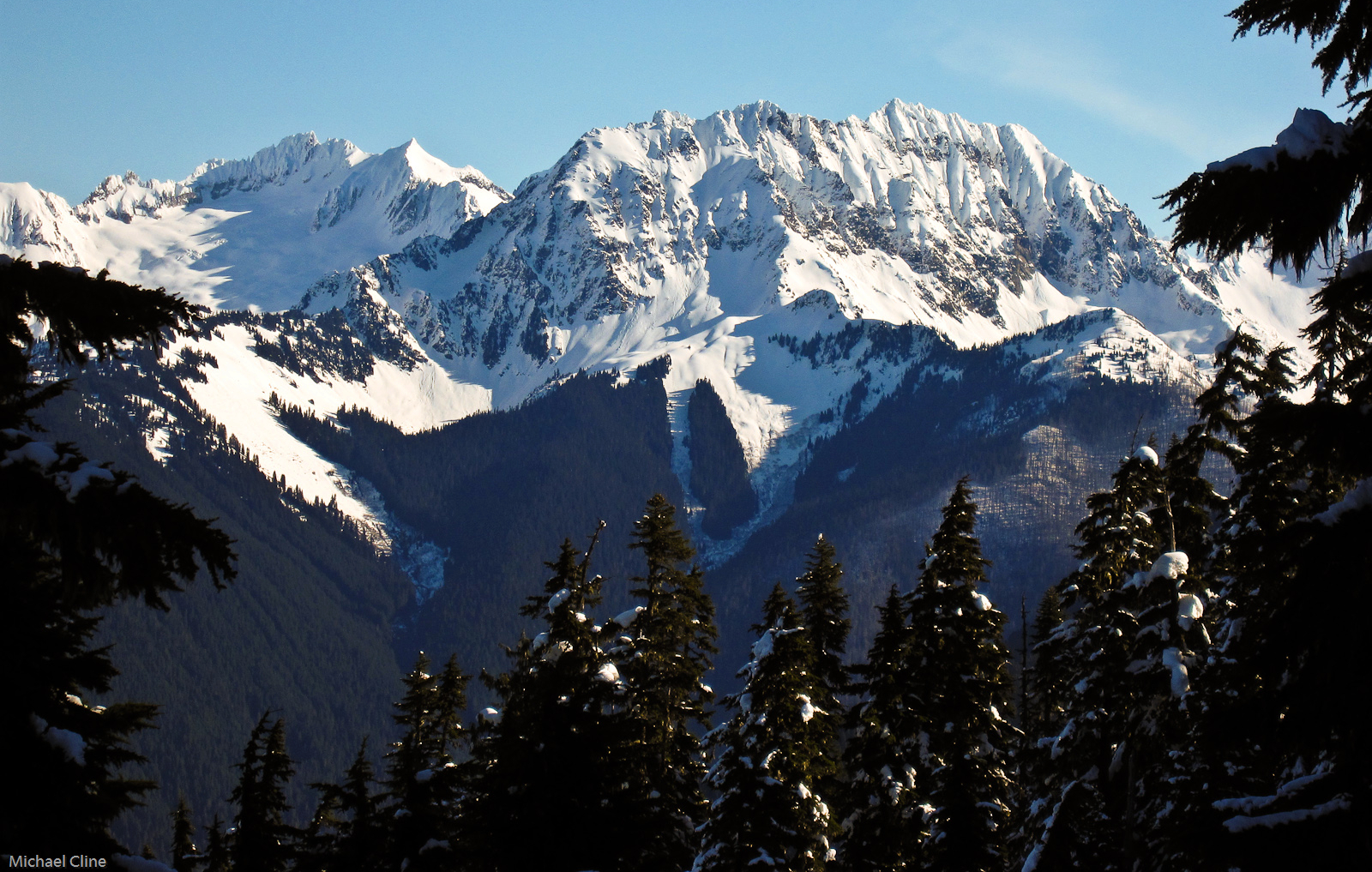 Johannesburg Mountain's southwest side seen from near Snowking Mountain